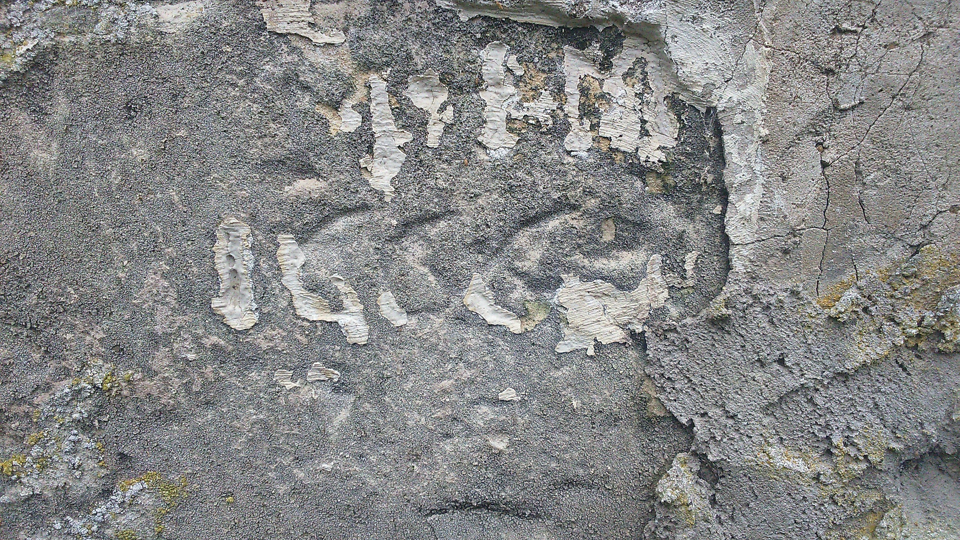 Inscription of "M.I.M. 1666" on side wall of Muckhart Mill, Dollar, Clackmannanshire